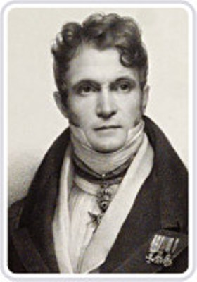 The image of Italian opera composer Gaspare Spontini (1774-1851)